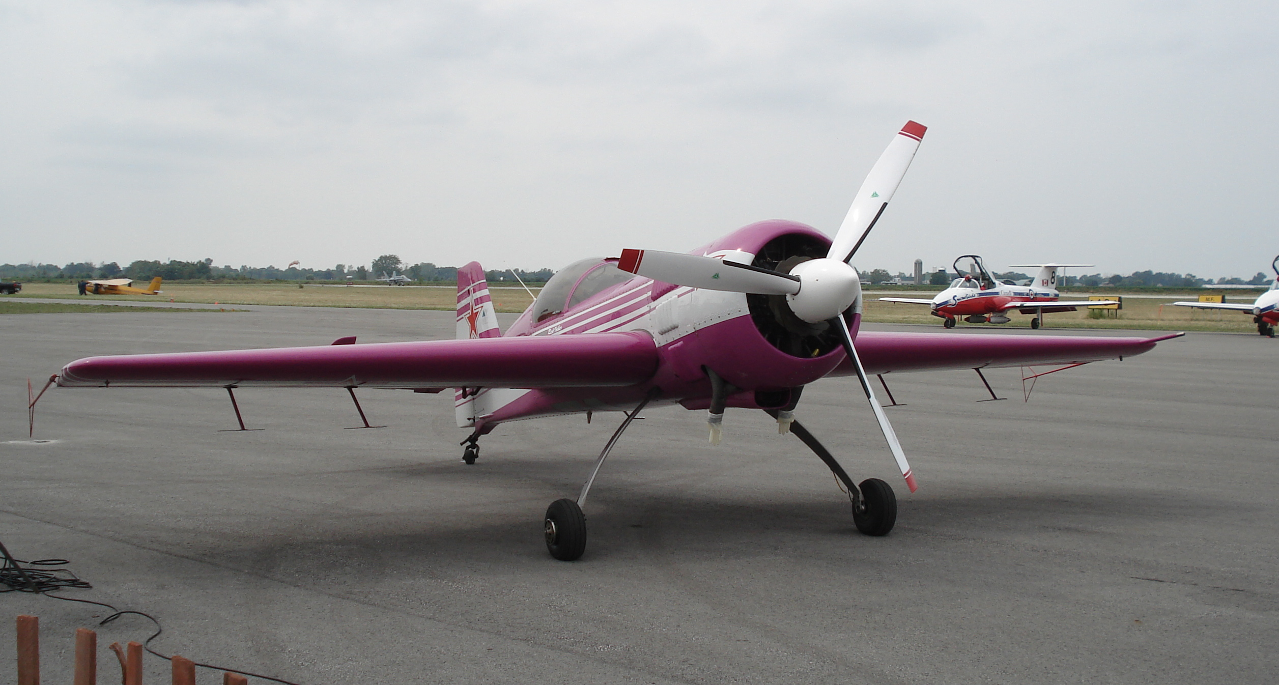 Su-26M aerobatics stunt plane. This example was photographed at an airshow held at St. Catharines Airport. The plane was flown by Rick Volker. Photo taken on August 26, 2006. Source: Photo by me, User:Balcer.